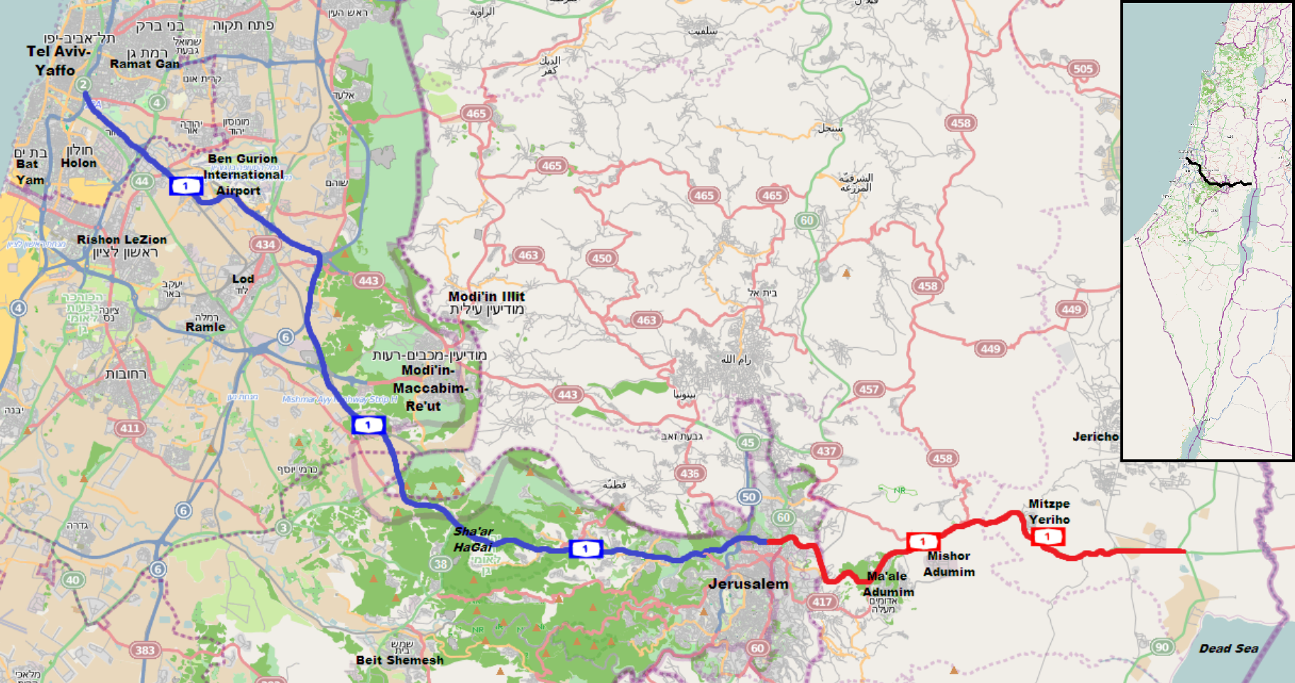 Israel Highway 1 map